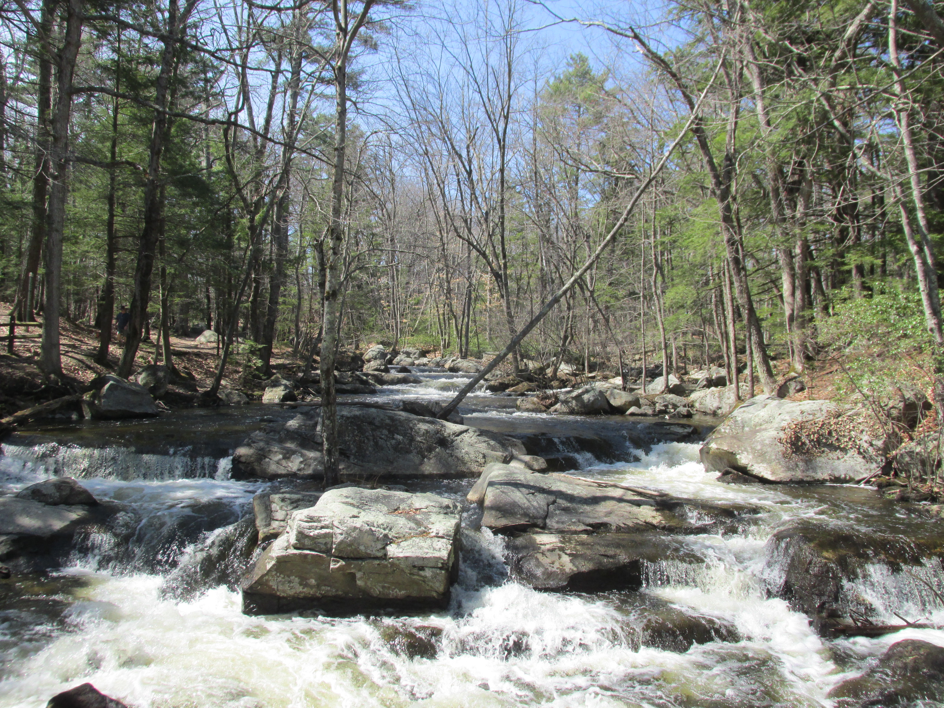 Baboosic Brook, Twin Bridges Park, Merrimack New Hampshire - 2014